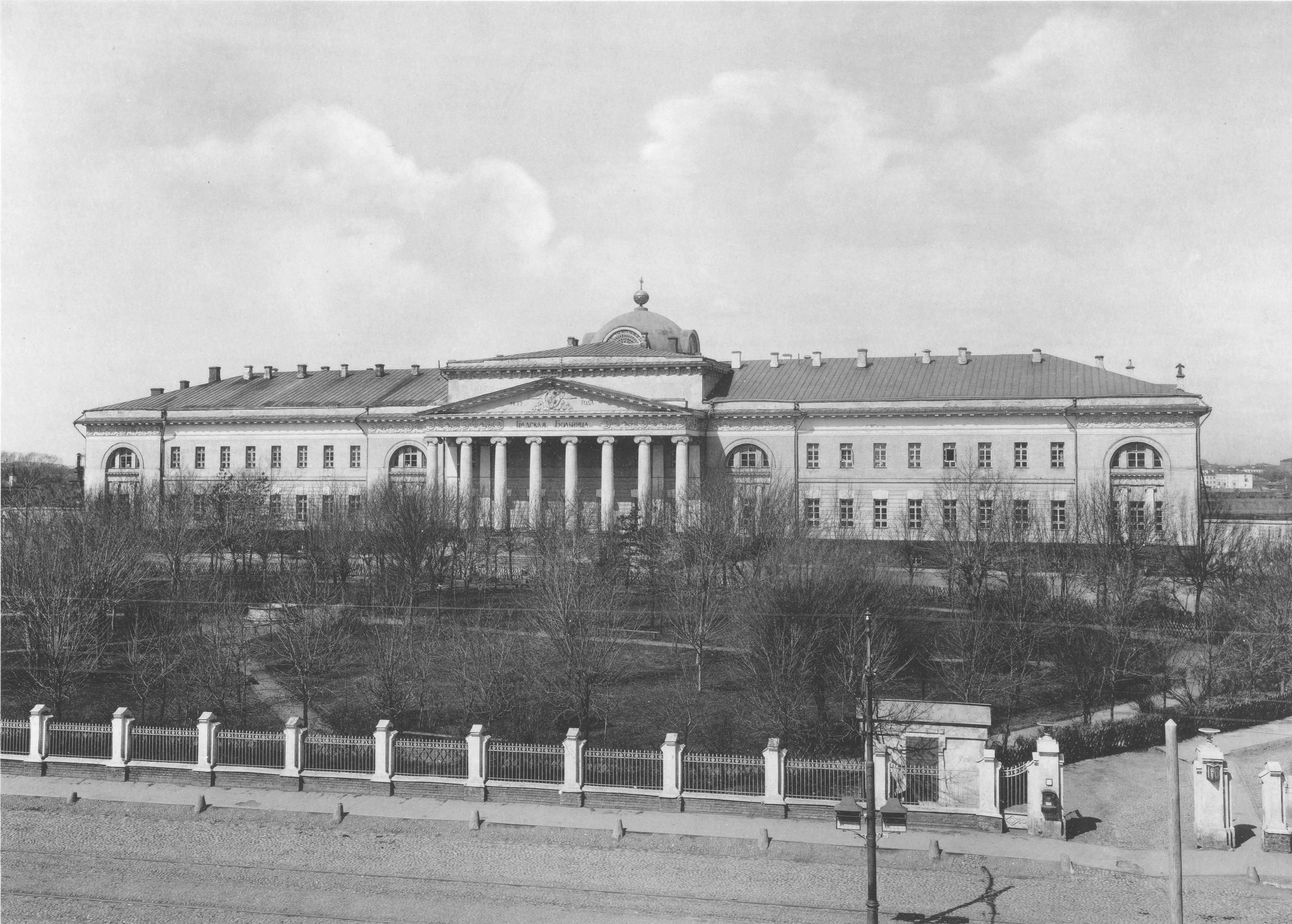 Moscow, First City Hospital in late 1890s.